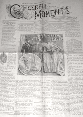 CHEERFUL MOMENTS, a 13" x 19" eight-page newspaper published in August, 1893, Boston, Massachusetts, USA.